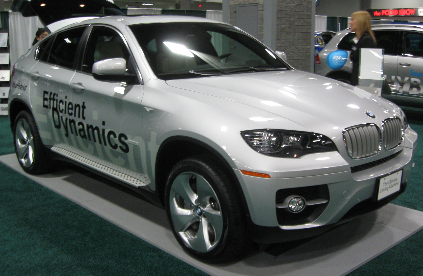 BMW X6 photographed at the 2011 Washington (D.C.) Auto Show.